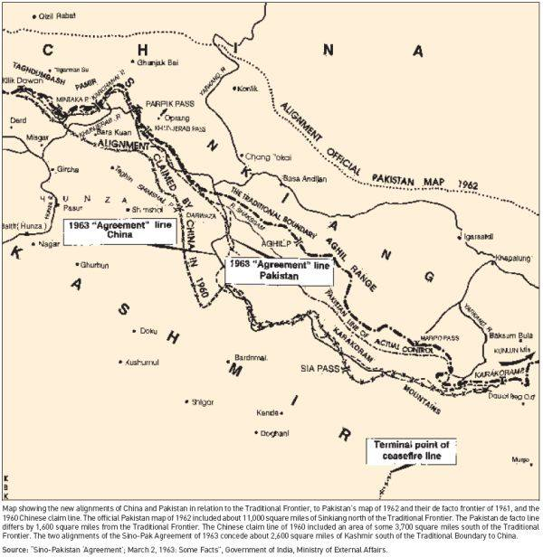 Map depicting the official alignment of the northern border of Kashmir in 1962 according to the Government of Pakistan